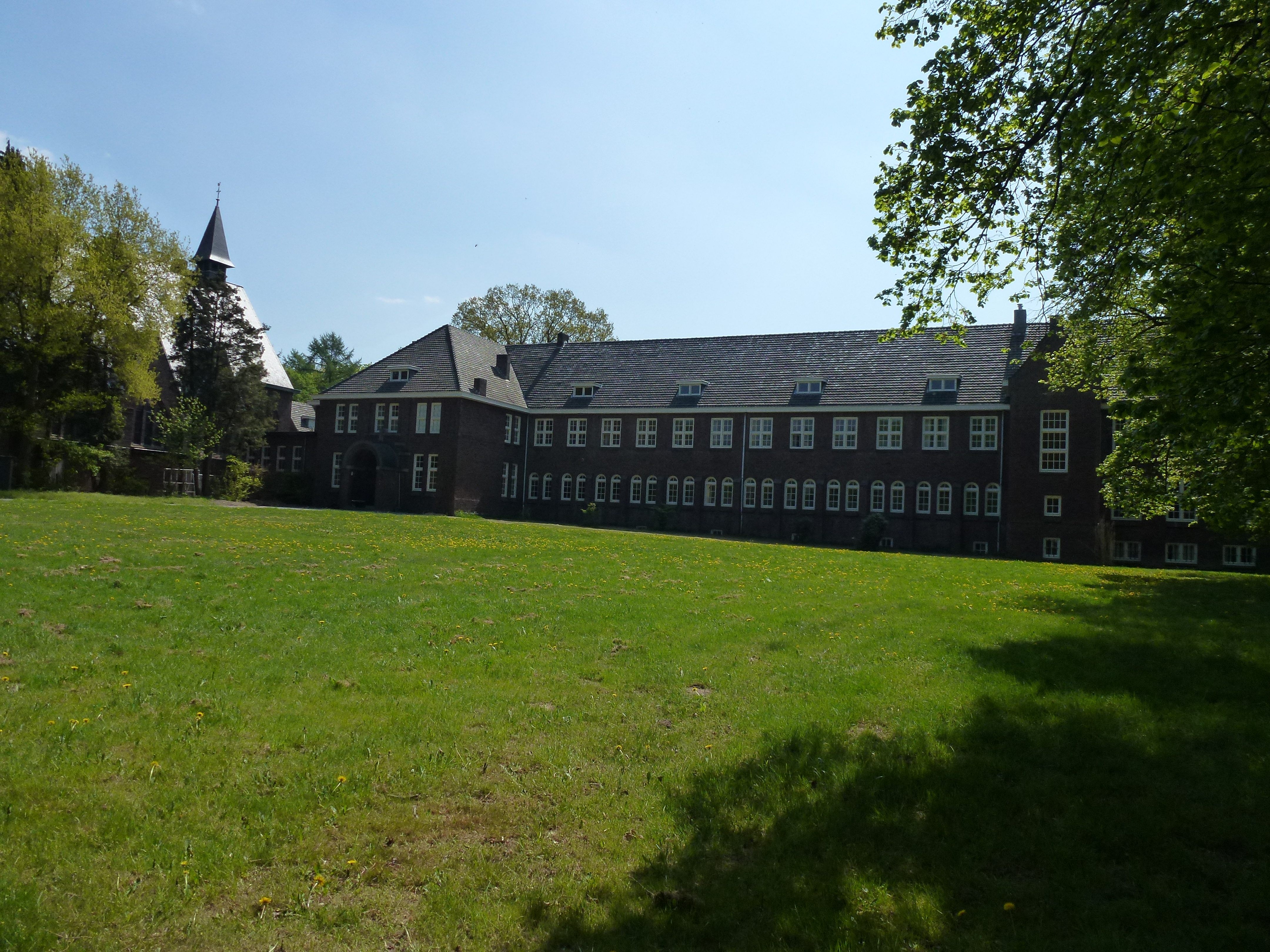 Maria Hoop (Echt-Susteren) klooster